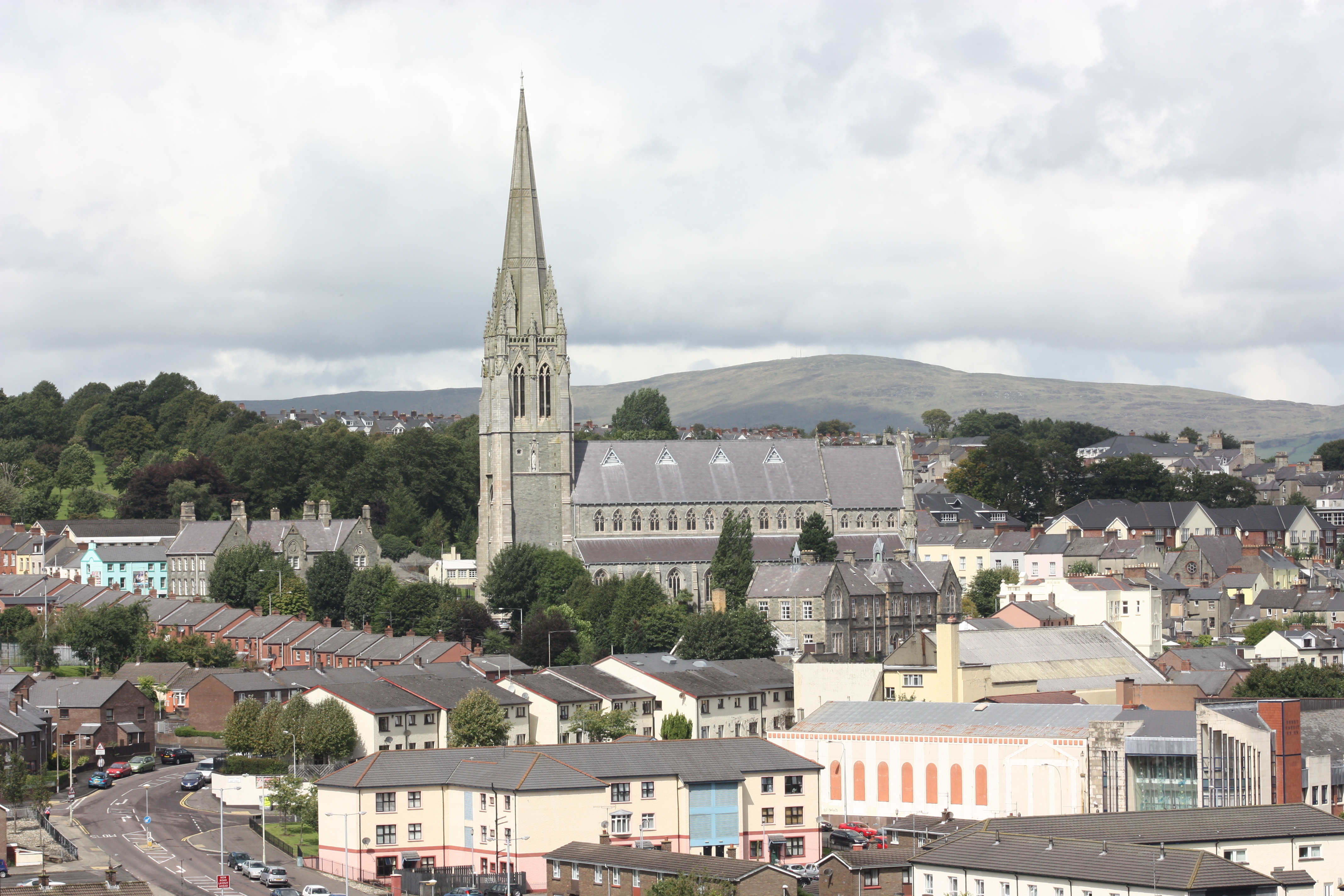 St Eugene's Cathedral, Francis Street, Derry, County Londonderry, Northern Ireland, August 2009 (viewed from the Walls of Derry)